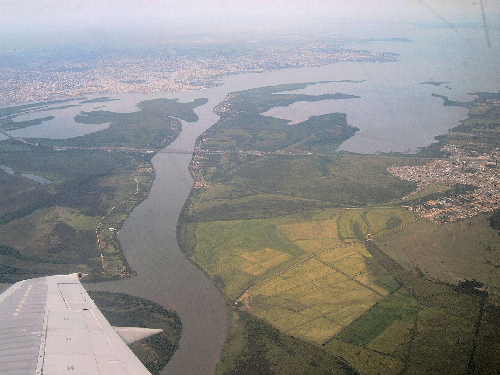 Guaiba river with Porto Alegre